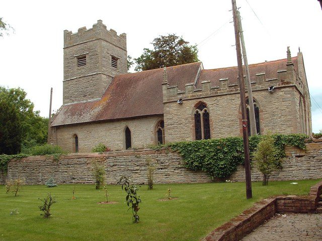 Spetchley, All Saints Church, near to Spetchley, Worcestershire, Great Britain. This church is situated within the boundaries of Spetchley Park. The church is looked after by the Churches Conservation Trust. The church is a simple early 14th century building, with a tower added within the west end of the nave in the 17th century. This church appears briefly in the Father Brown episode "The Judgement of Man".